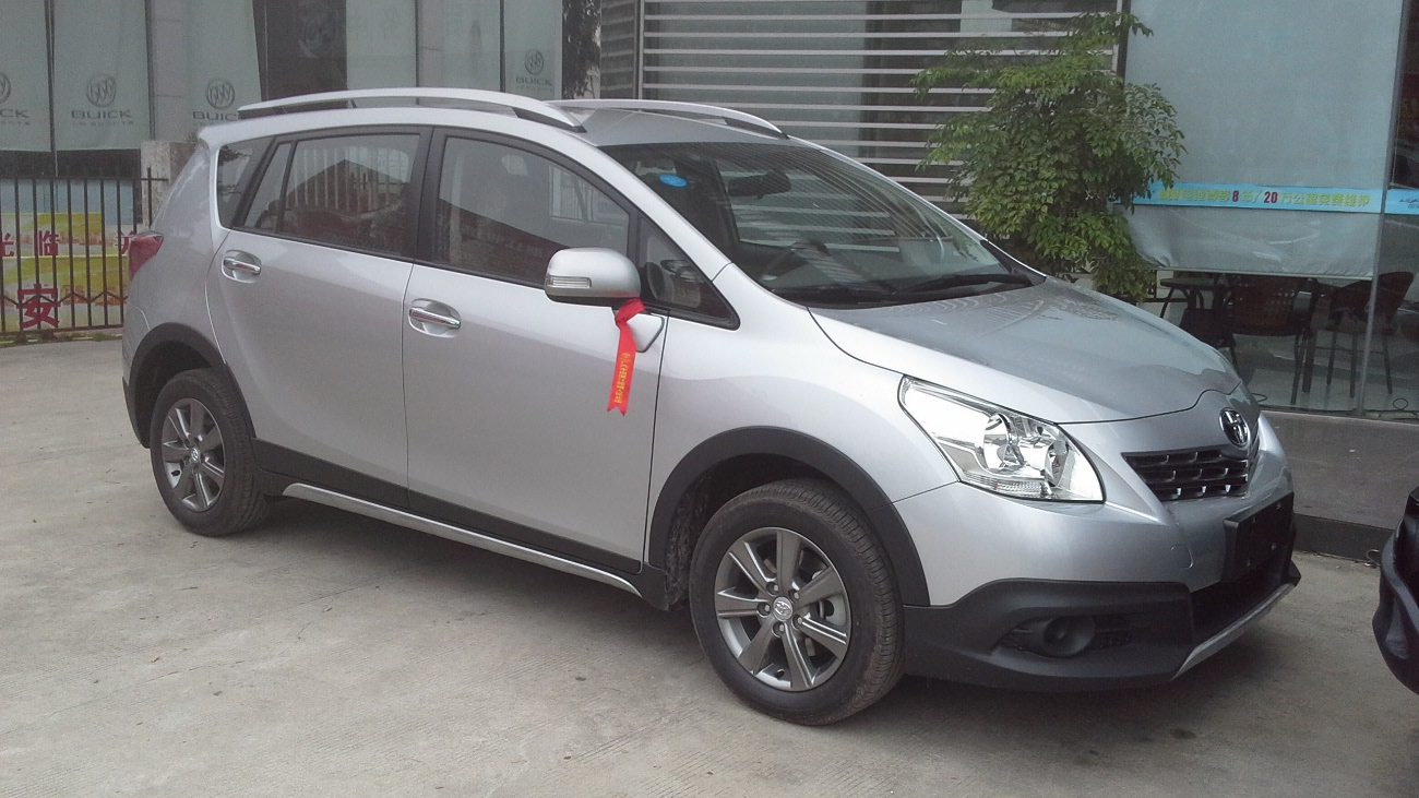 Toyota E'Z Cross photographed in Zhanjiang, Guangdong province, China.